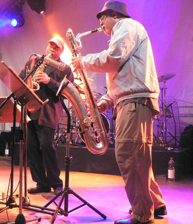 Olver Lake and Hamiet Bluiett (cropped version)